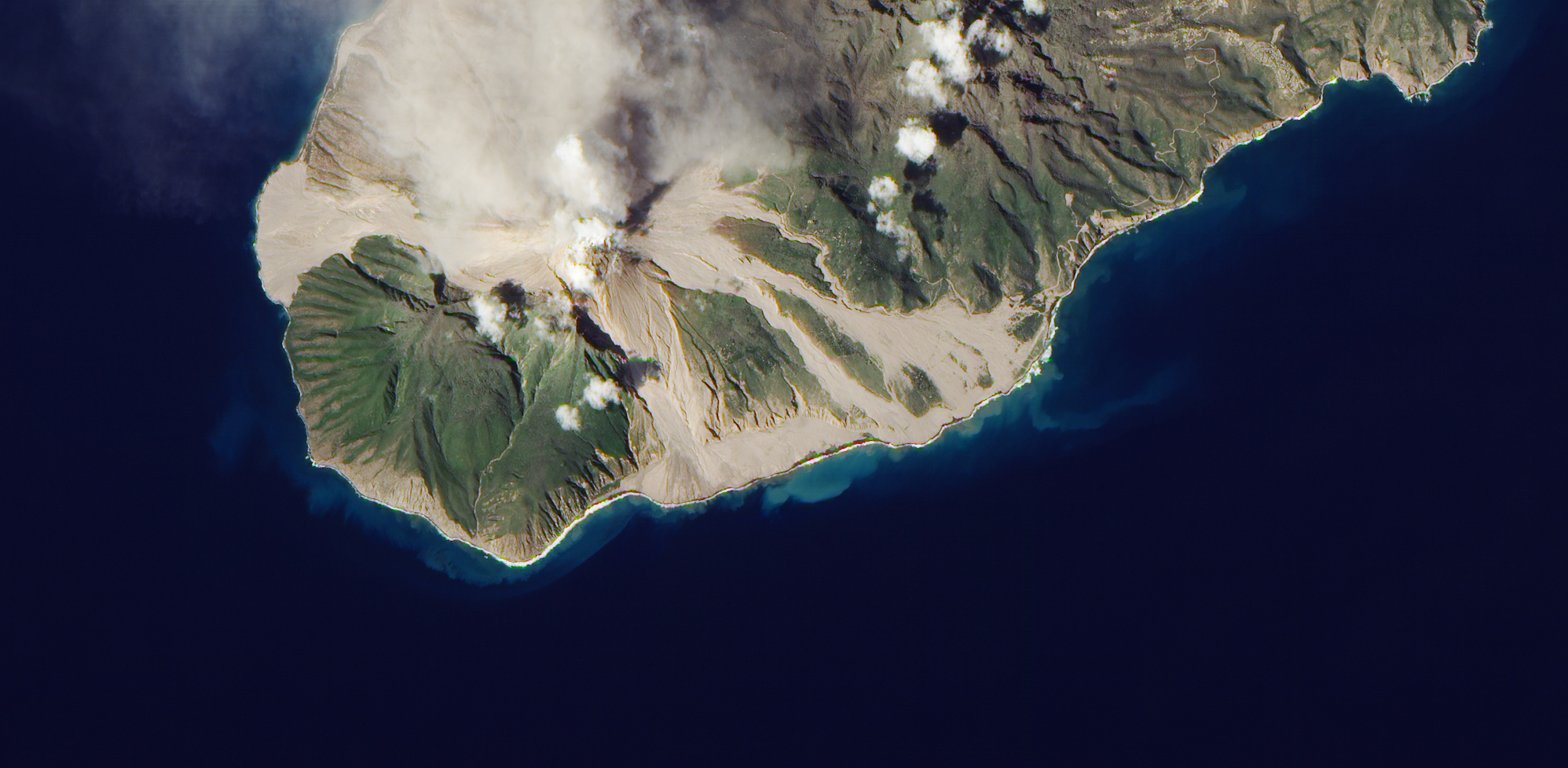 In the waning days of 2009 and the first days of 2010, the lava dome on the summit of Soufrière Hills Volcano continued to grow rapidly. As the dome rises, rocks and debris can break off, cascading down the river valleys and gullies that radiate from the summit. These pyroclastic flows are among the major hazards created by Soufrière Hills. This natural-color satellite image shows the major drainages on the southern and eastern sides of Soufrière Hills. Tan deposits from volcanic flows fill the valleys, the product of almost 15 years of intermittent activity at the volcano. Green vegetation survives on ridges between valleys. The Advanced Land Imager (ALI) aboard NASA’s Earth Observing-1 (EO-1) satellite acquired the image on December 29, 2009.